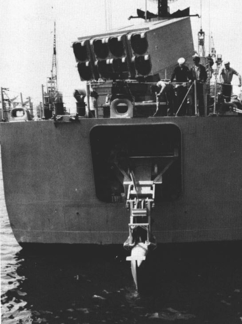 View of the AN/SQS-35(V) variable depth sonar aboard the U.S. Navy oean escort USS Francis Hammond (DE-1067), circa 1973.